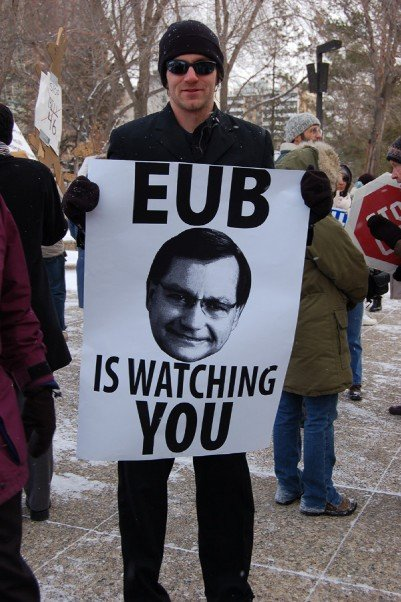 Activist Mike Hudema protesting the actions of the Alberta Energy and Utilities Board, which admitted to hiring private investigators to spy on landowners opposing the construction of a major powerline